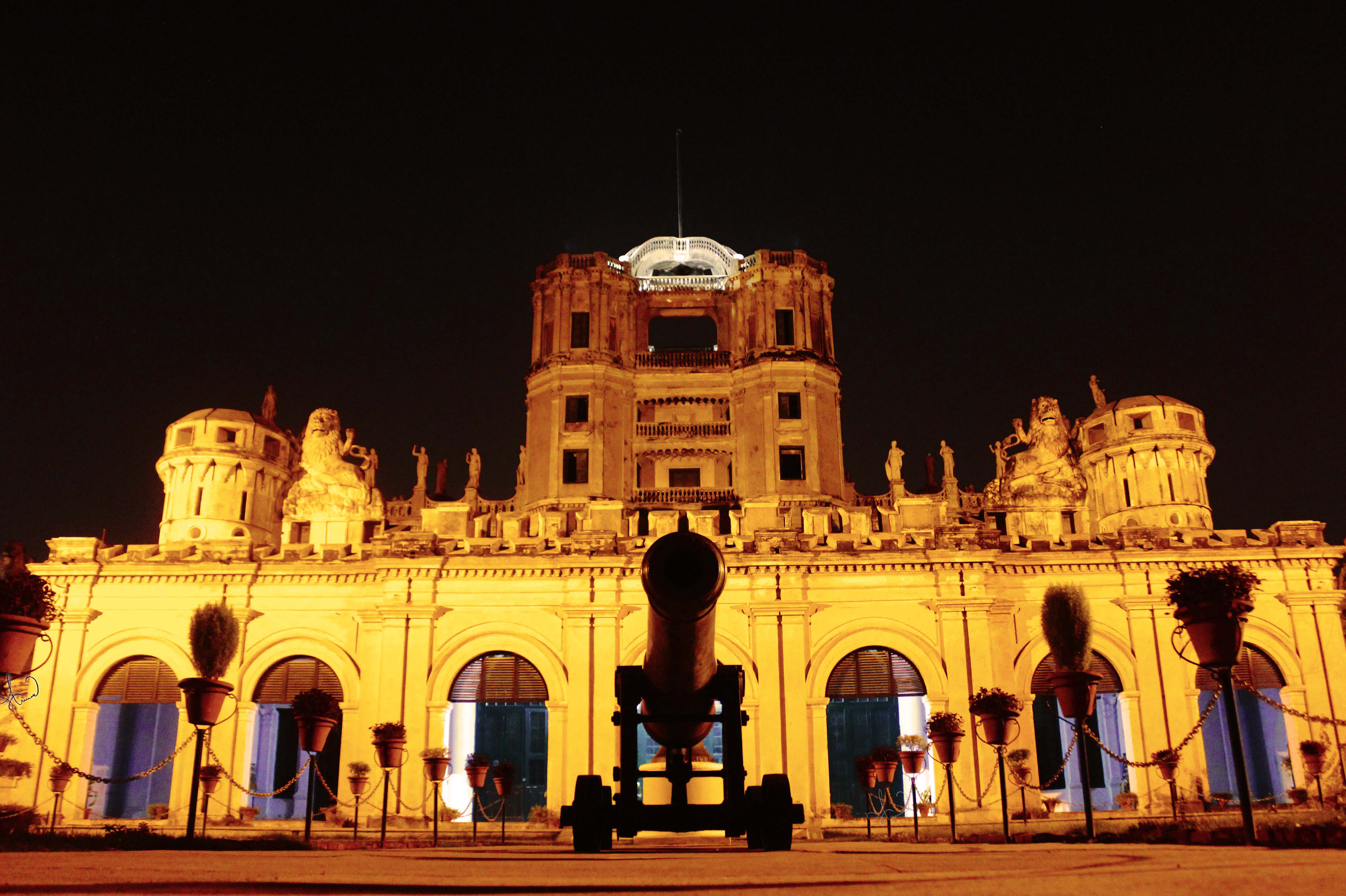 East view of Constantia at Night